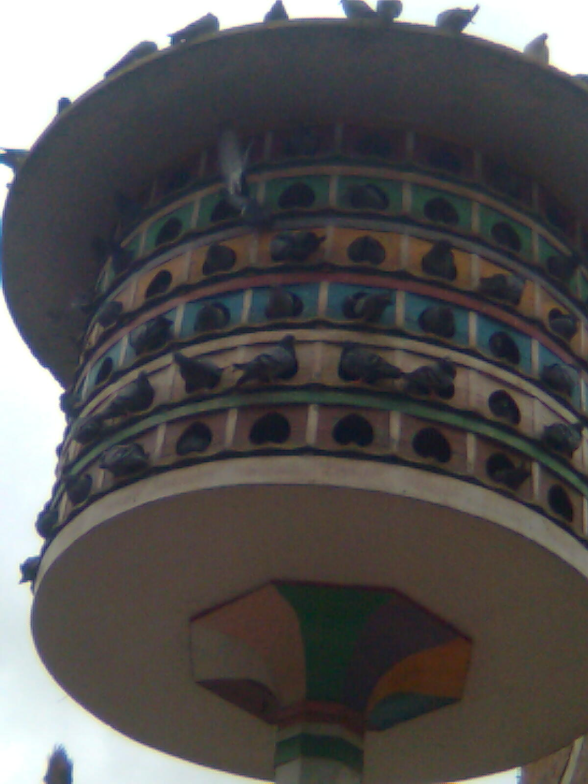 This is the tower of the Hyderabad Pigeon Welfare Association Park